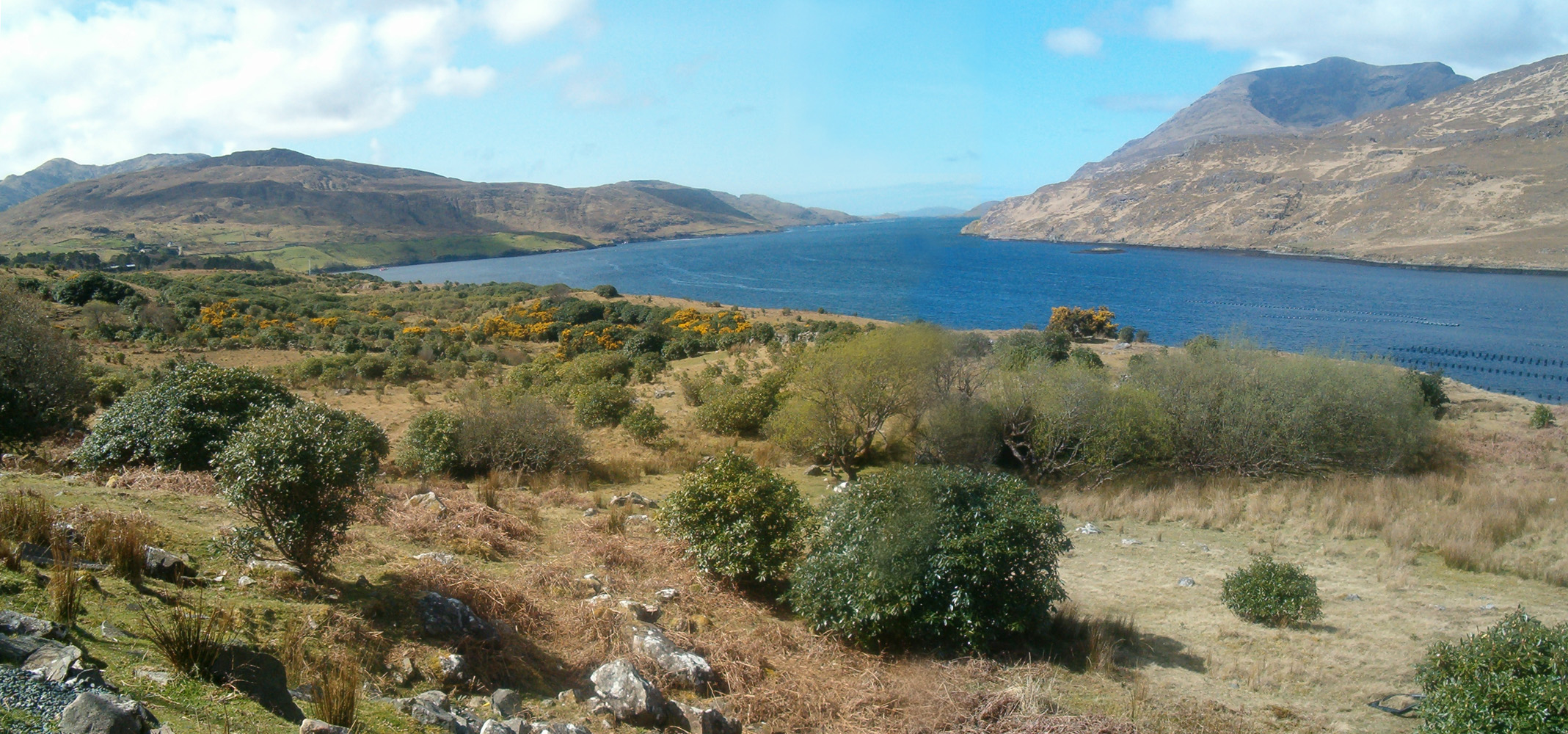 Killary Harbour is a 16km long fjord, at the frontier between counties Galway and Mayo (in Ireland).